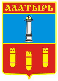 Old coat of arms of Alatyr